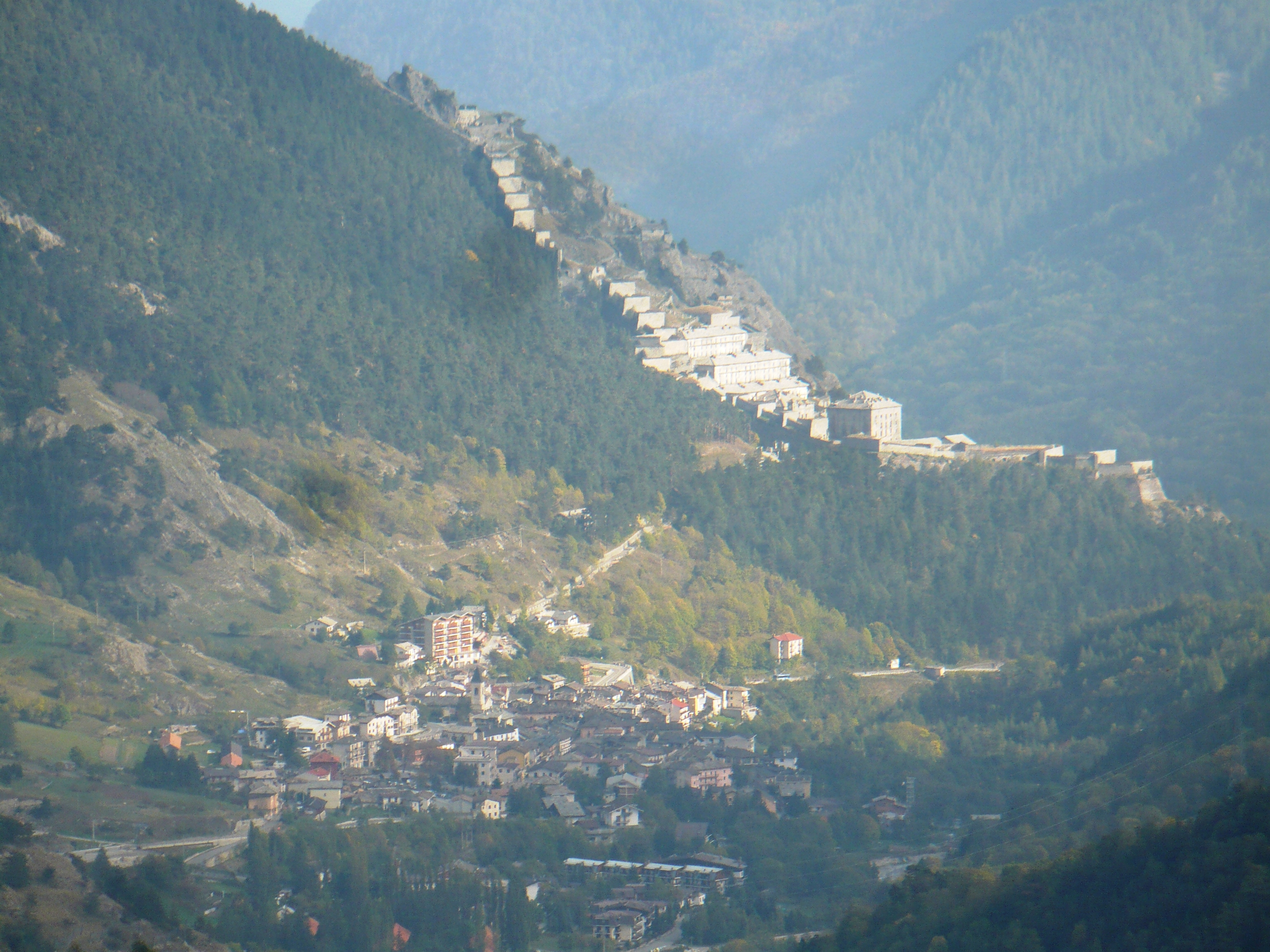 Fenestrelle - Val Chisone - Province of Turin - Italy